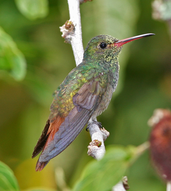 Rufous-tailed Hummingbird (Amazilia tzacatl) with pollen on face in Merida, Venezuela